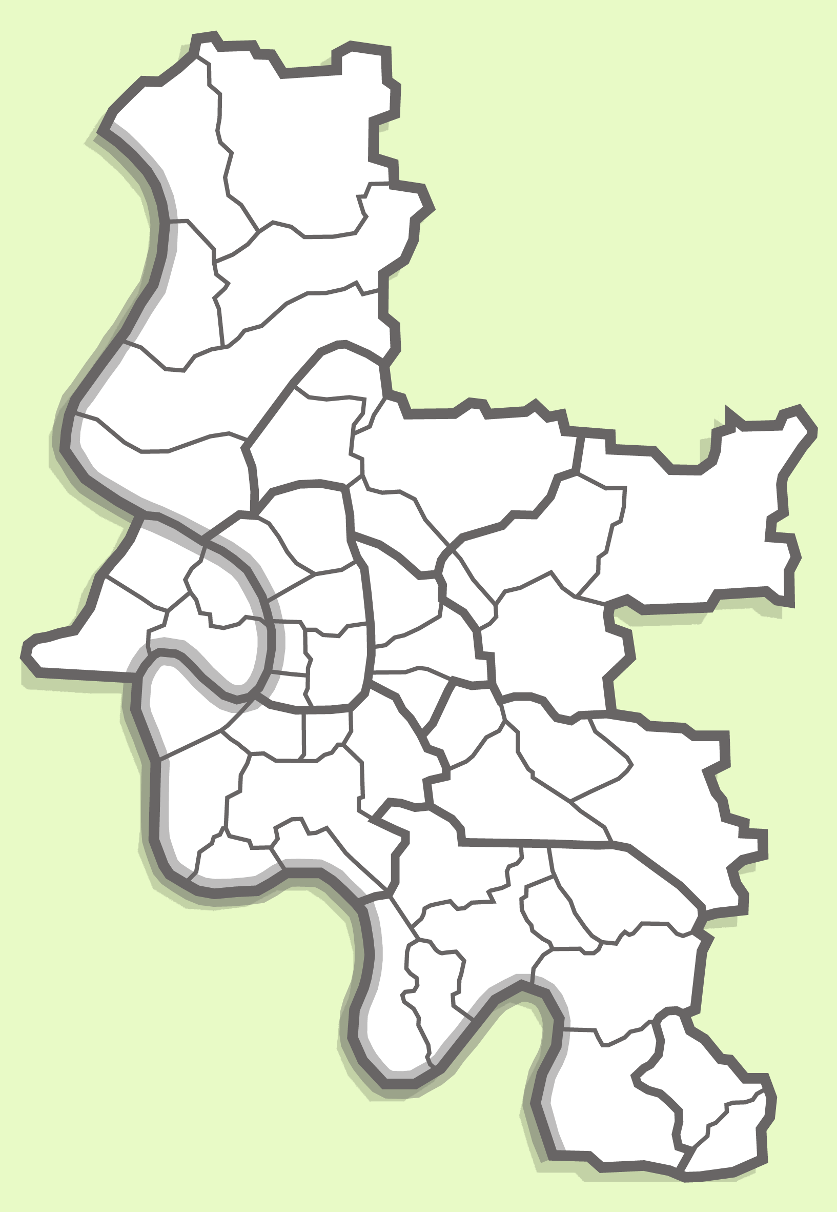 Parts of the city of Düsseldorf